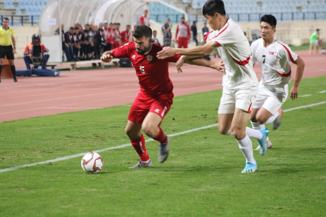 Lebanon v North Korea at the 2022 FIFA World Cup qualifiers.